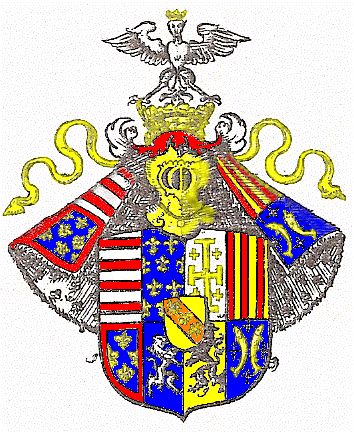 Coat of arms of the Duke of Lorraine in 1703